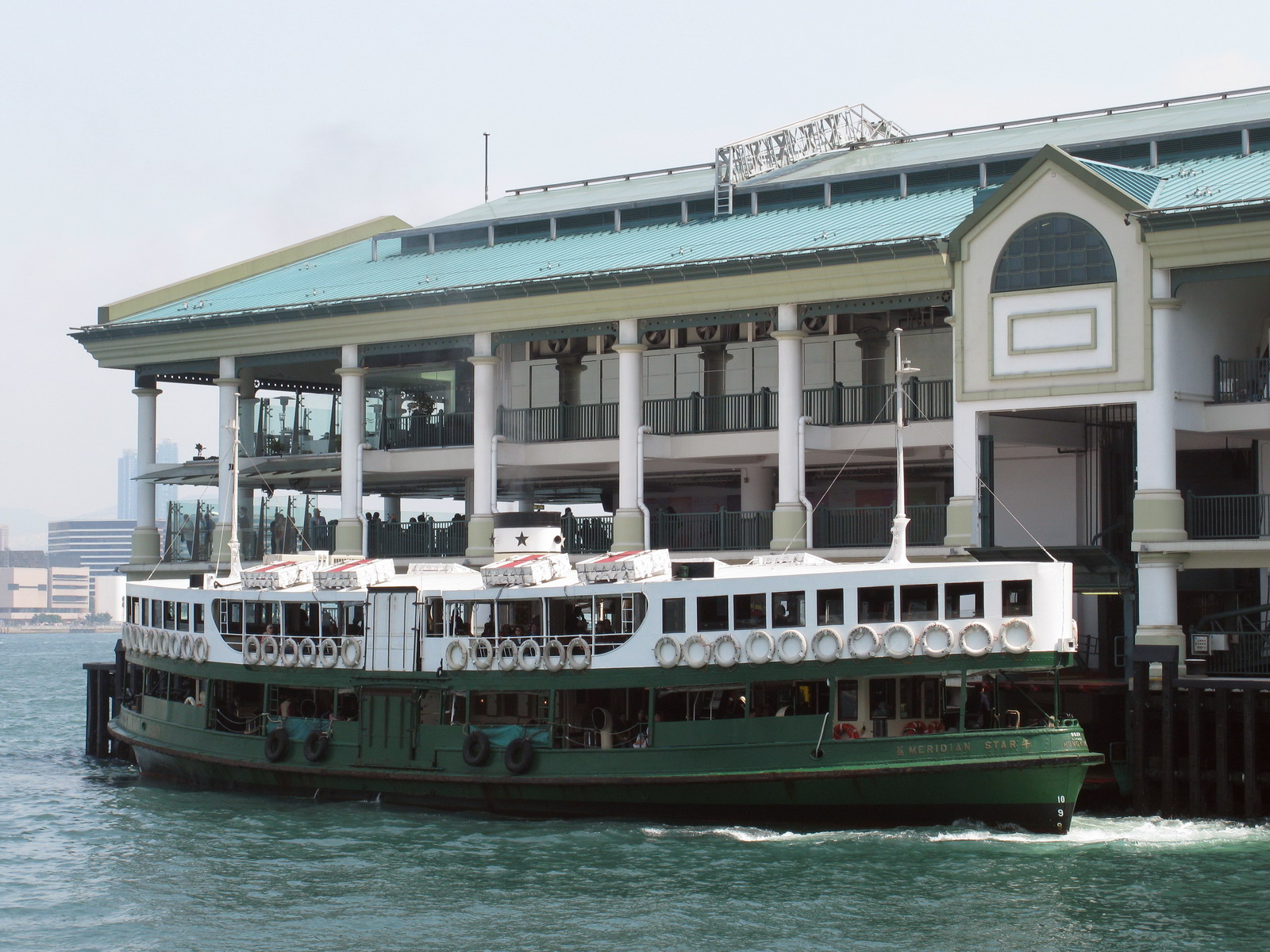 Meridian Star, Star Ferry